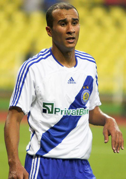 Badr El Kaddouri, Moroccan footballer, during the game for Dynamo Kyiv